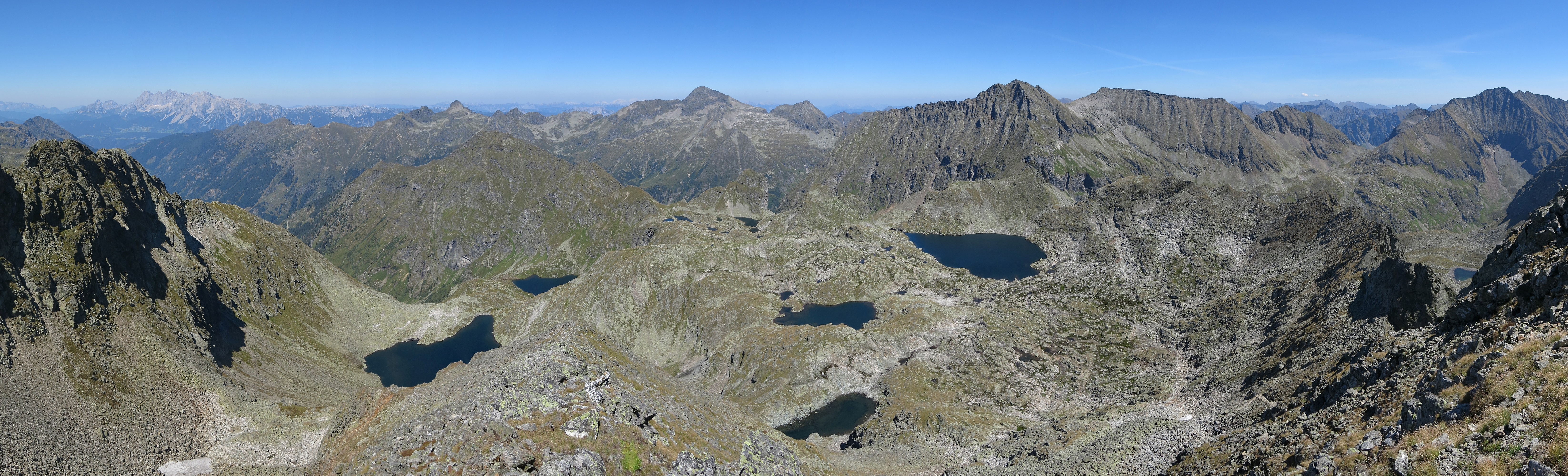 Klafferkessel in the Schladming Tauern, seen from Greifenberg